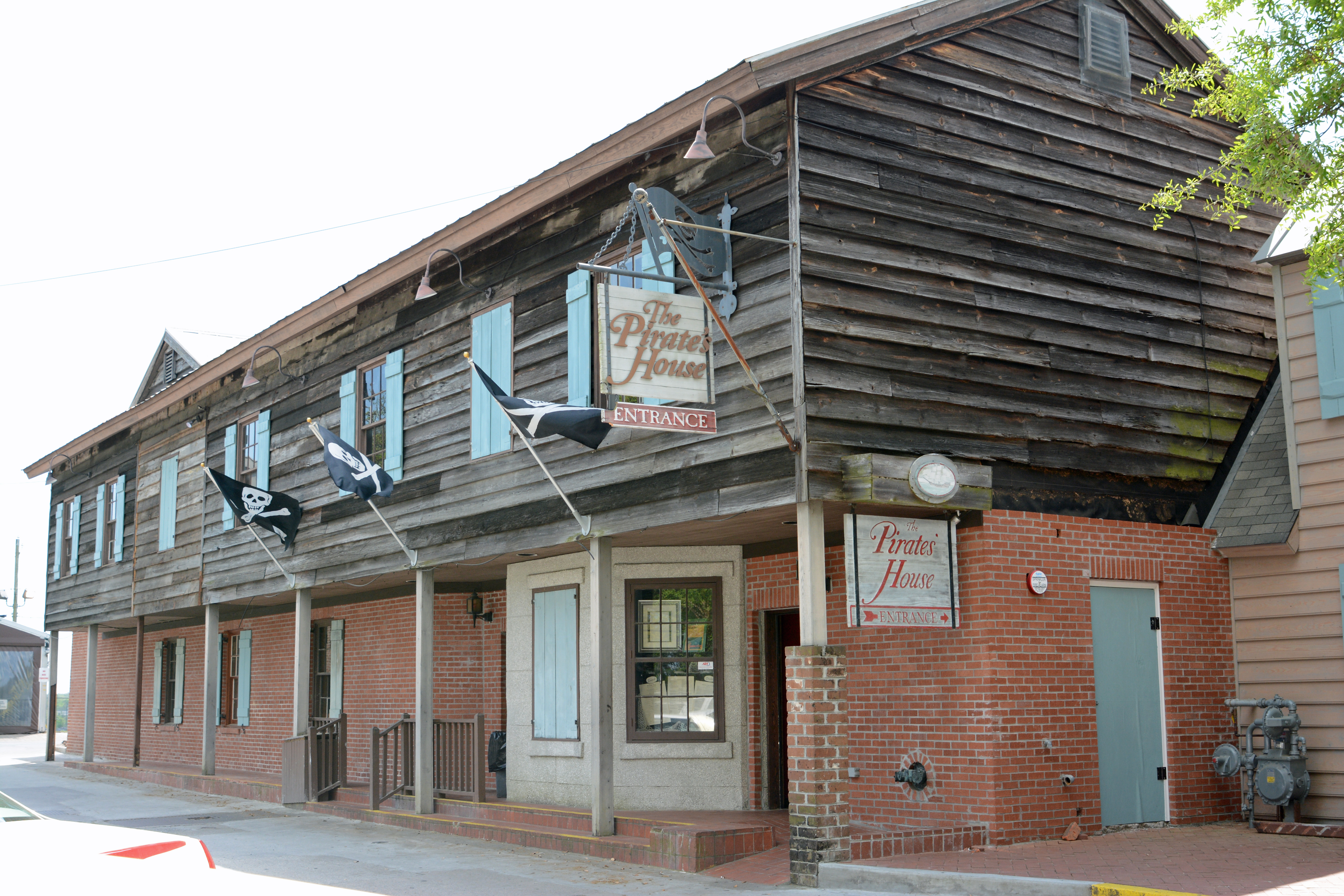 Pirate's House restaurant in Savannah, Georgia, US. One of the oldest buildings in Georgia.